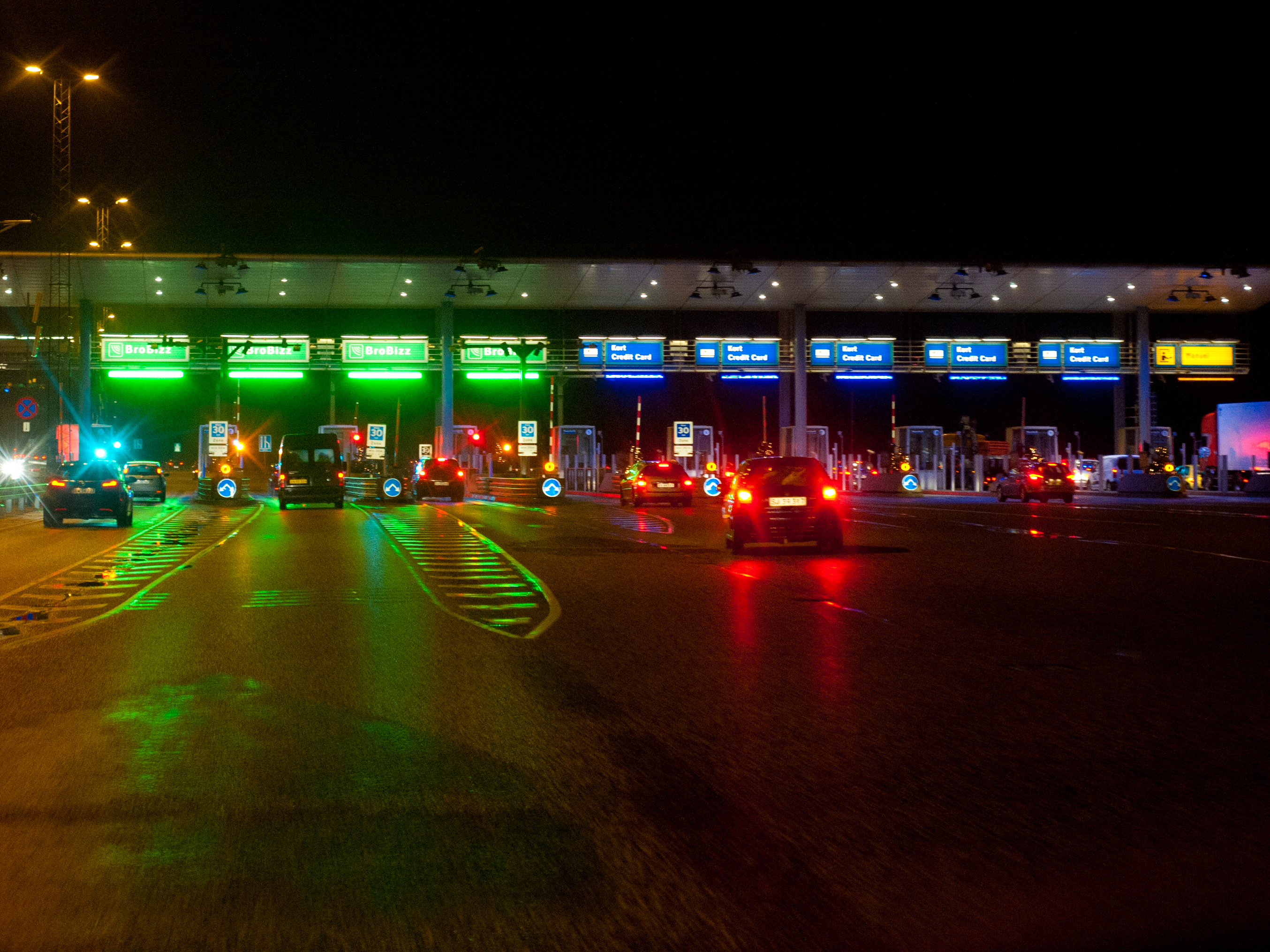 The Great Belt Fixed Link toll plaza. Different coloured light, indicates different payment methods: Green is for the BroBizz electronic toll collection system, Blue is for automated credit card, and Yellow is manual payment, cash or creditcard. Based on the need and load on each method, each booth can change into either of all three roles.